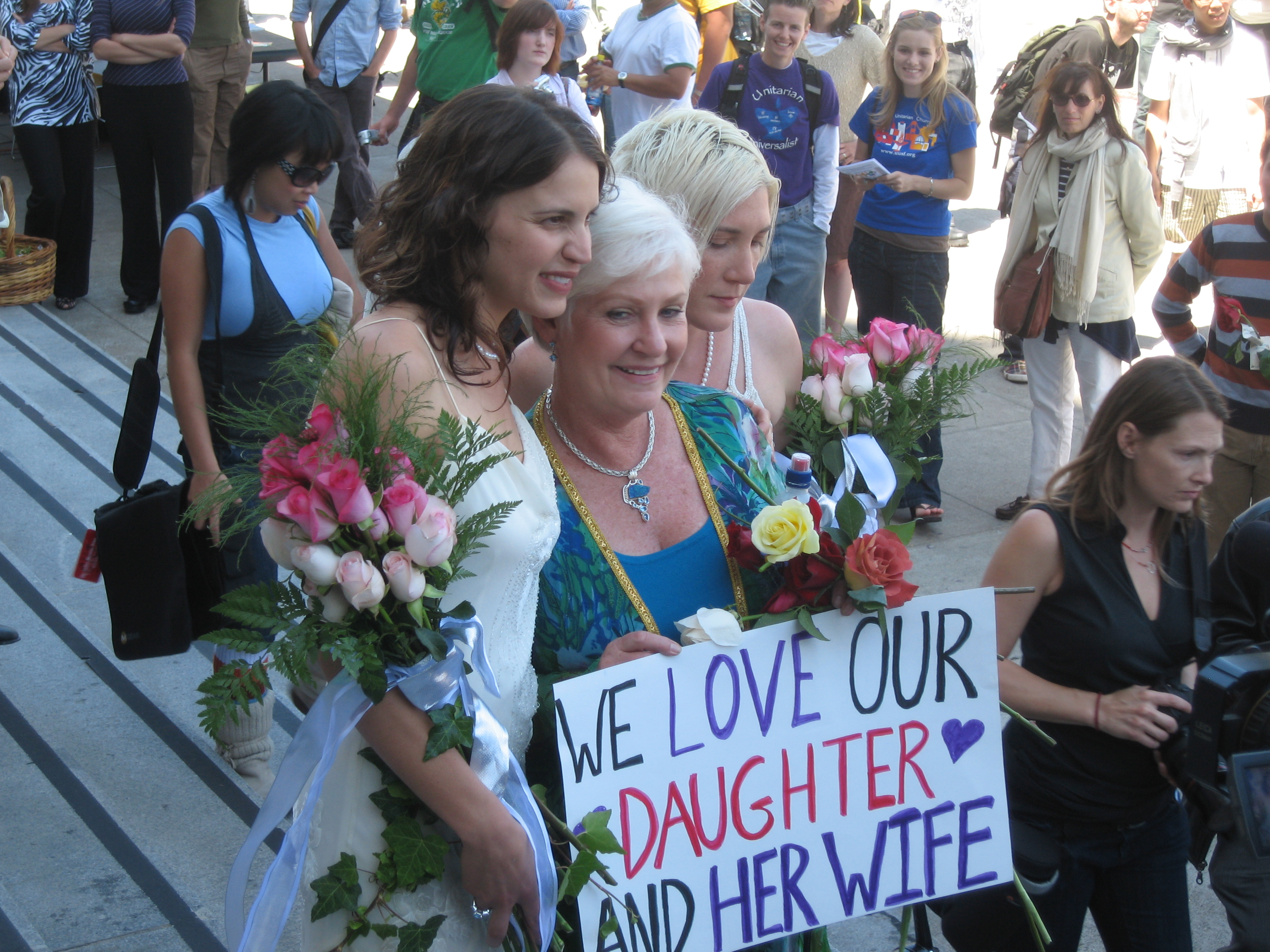 I went down to City Hall on my lunch break on the first official full day that gay & lesbian couples could get married in California and took photos of various weddings taking place throughout the building. City Hall set up designated ceremony locations all over the place in the upstairs part of the building. After a couple was officially married, they'd walk down the grand staircase together and everyone who was there would cheer and clap for them. Many of these couples had flown in last minute from states all over the country to finally make official the committed relationships that they've been in for years and decades. Outside City Hall were supporters with large signs delivering messages of love and support. Other people brought bouquets of flowers to give to each couple as they left the building. And several radio stations setup remote broadcasting booths there in front of City Hall. In particular, Energy 92.7 FM (the local dance station) brought cake and champagne to hand out to all the people celebrating their new lives together. There was not a single protestor. It was really a touching event.